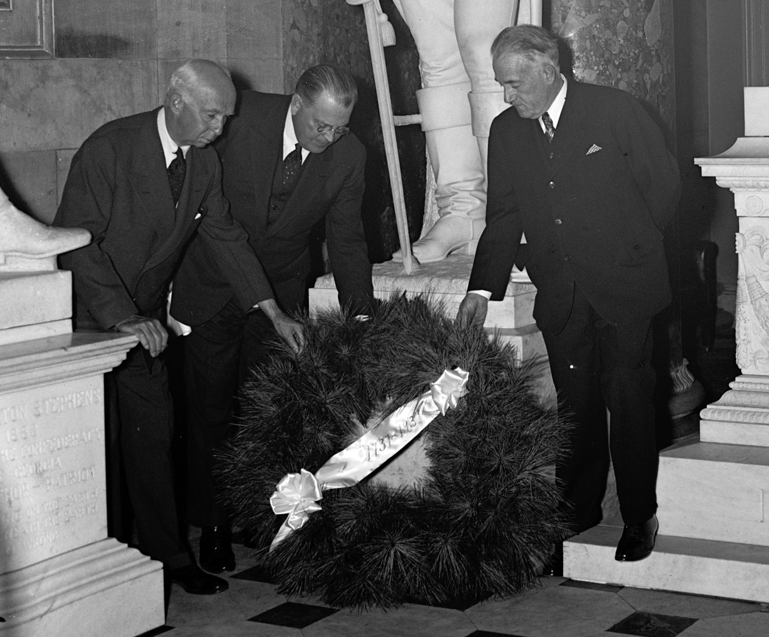 Charles Albert Plumley (on the right), US Representative from Vermont, with US Senators Ernest Willard Gibson (on the left) and Warren Austin at a wreath-laying ceremony honoring the 200th birthday of Ethan Allen